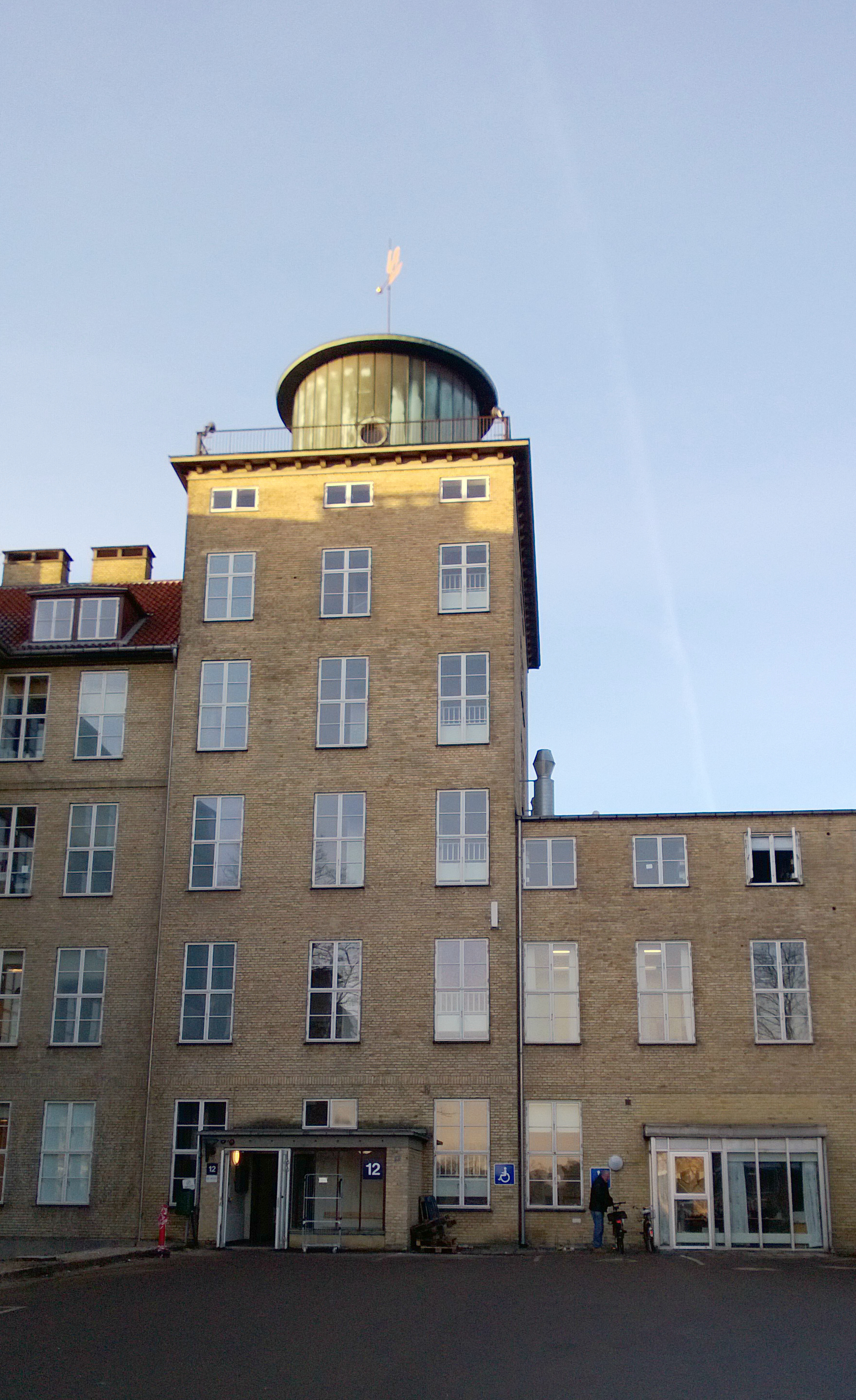 Gentofte Hospital near Copenhagen, Denmark